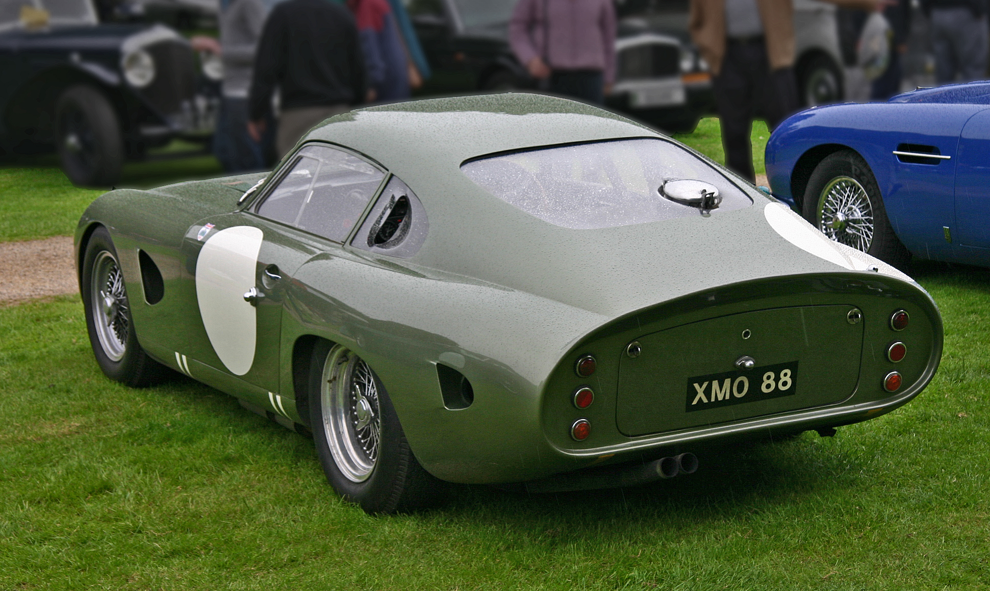 Aston Martin DP215. The body was designed by Ted Cutting and the Kamm tail ensured stability on the long Mulsanne straight. Timed at 198mph these aerodynamics were needed.